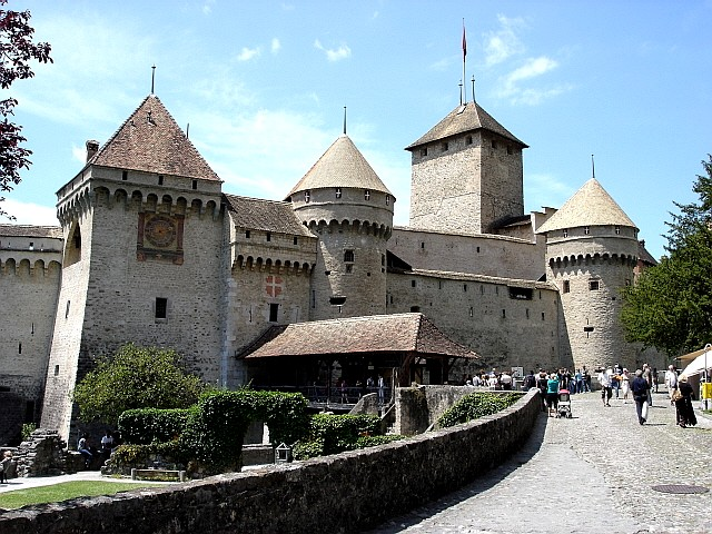 Chillon